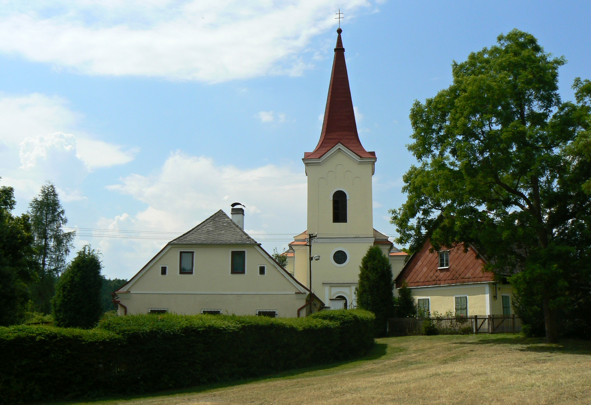 Church in Šipín near Konstantinovy lázně in Tachov District, Czech Republic